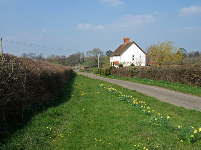 Cottage at Cox's Water This solitary cottage and the bridge over the River Lydden in the far distance beyond, are the only features which mark this spot just south of Lydlinch.